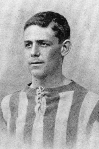 Laurie Bell 1901